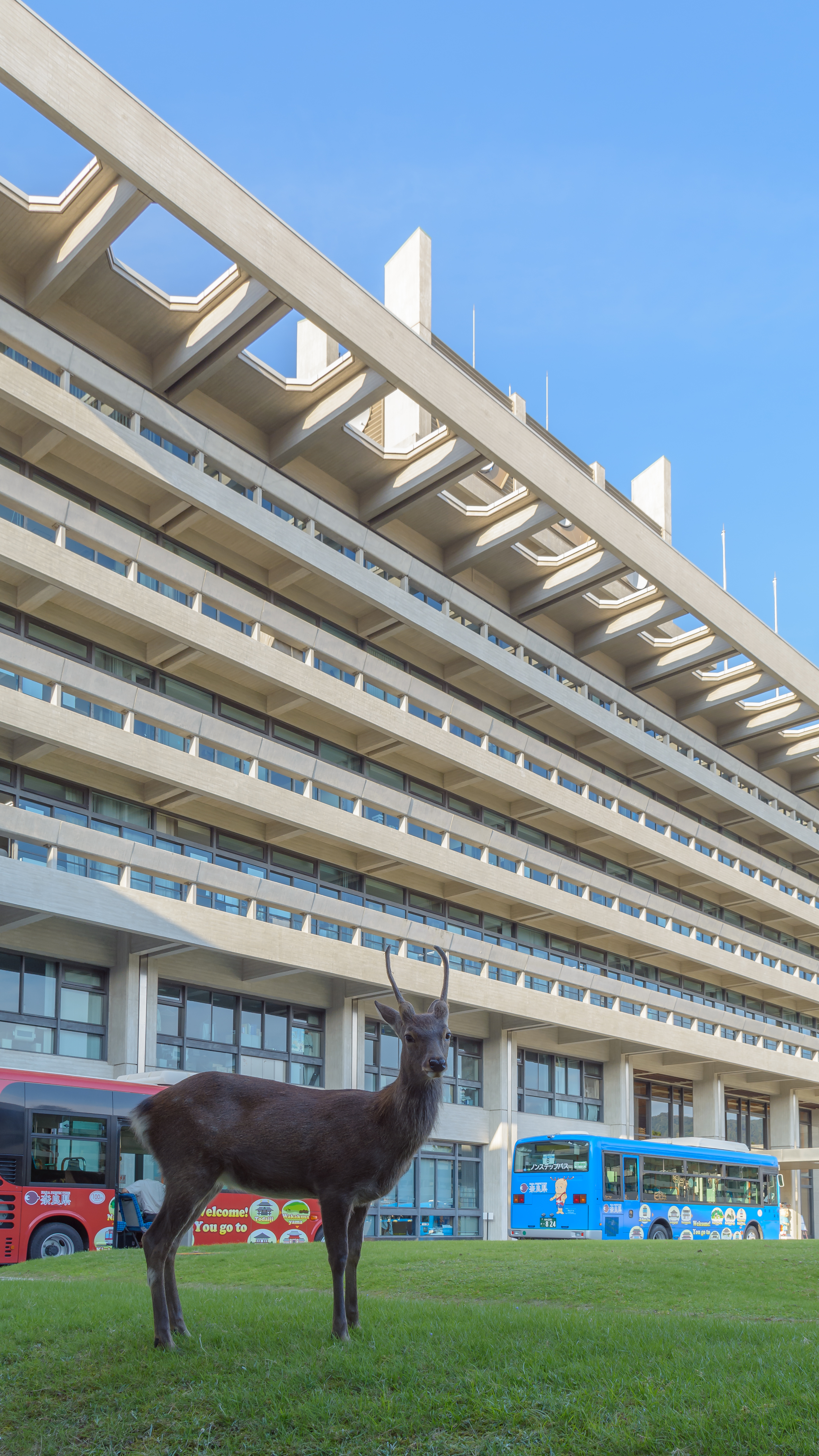 Nara prefectural government office with a male deer.